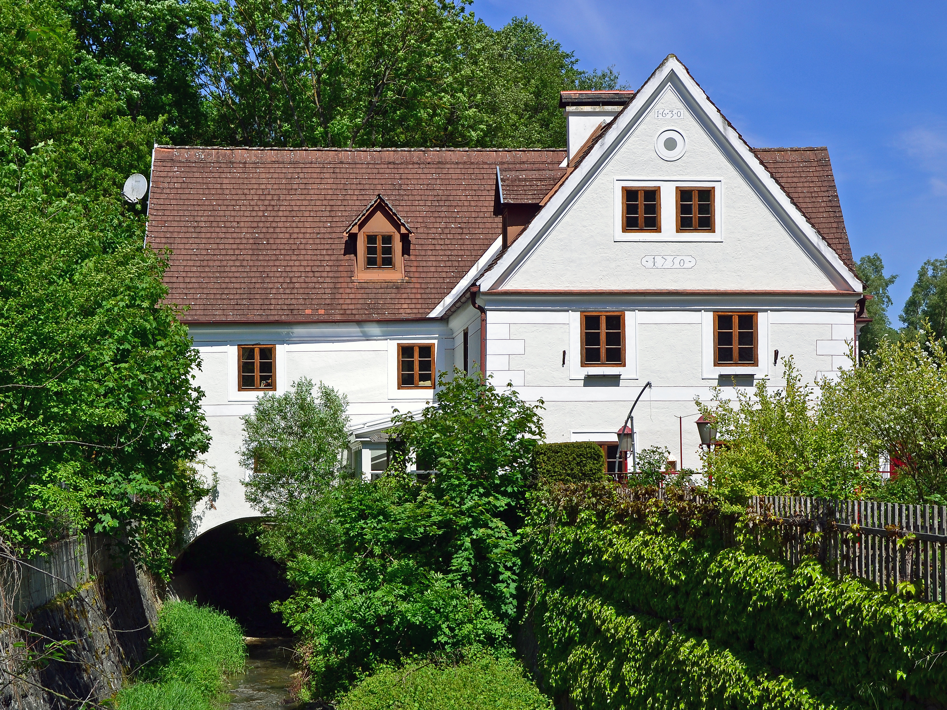 Old monastery mill Mauerbach